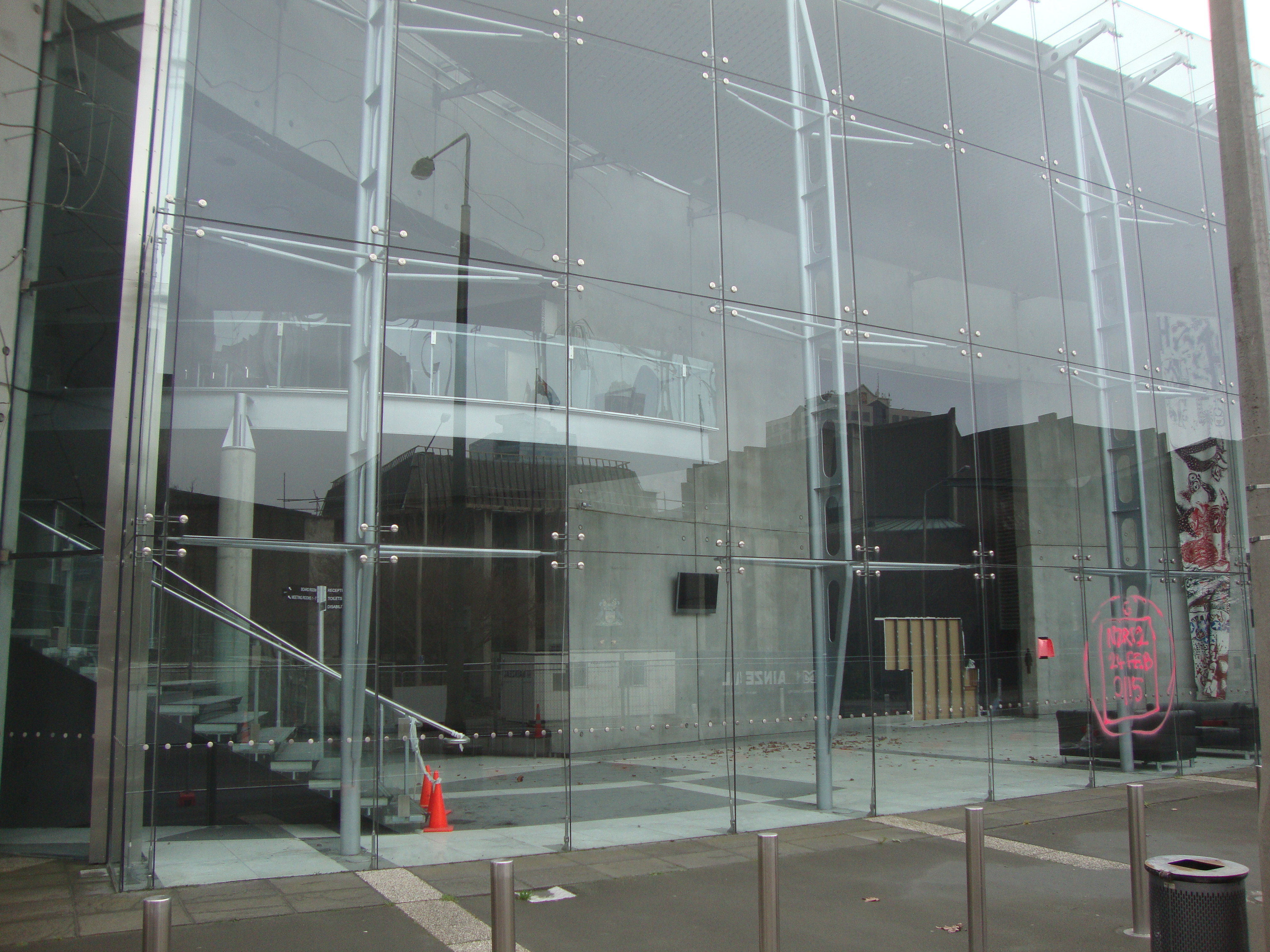 Kilmore Street frontage of Christchurch Convention Centre.